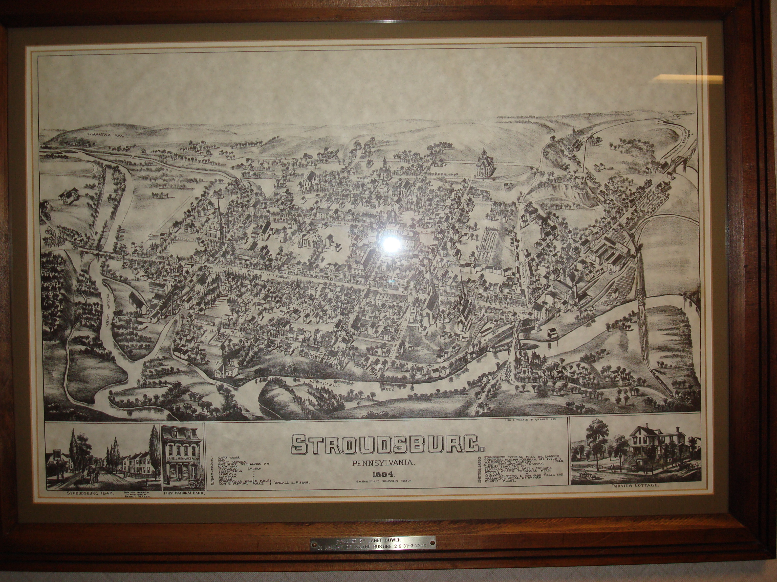 This a map of the town of Stroudsburg from 1884